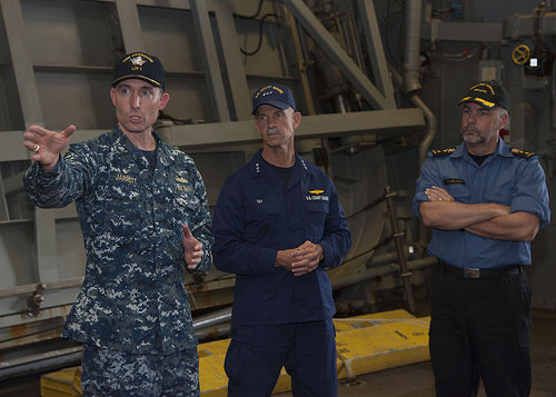 150331-N-JO908-030 SAN DIEGO (March 31, 2015) Cmdr. Michael Jarrett, commanding officer of the littoral combat ship USS Freedom (LCS 1) gives Vice Adm. Charles W. Ray, commander, U.S. Coast Guard Pacific and Royal Canadian Navy Rear Adm. William Truelove, commander, Maritime Forces Pacific a tour of Freedom's waterborne mission zone as part of Three-Party Staff Talks (TPST). TPST gives commanders the opportunity to discuss current and future maritime operations between their forces and 3rd Fleet operational units. Staffs from each command participated in working groups that focused on maritime homeland defense and security, command, control, communications, computers and joint exercises. Joint interagency and international relationships strengthen U.S. 3rd Fleet's ability to respond to crisis and protect the collective maritime interests of the U.S. And its allies and partners. (U.S. Navy photo by Mass Communication Specialist 3rd Class Kory Alsberry/Released).